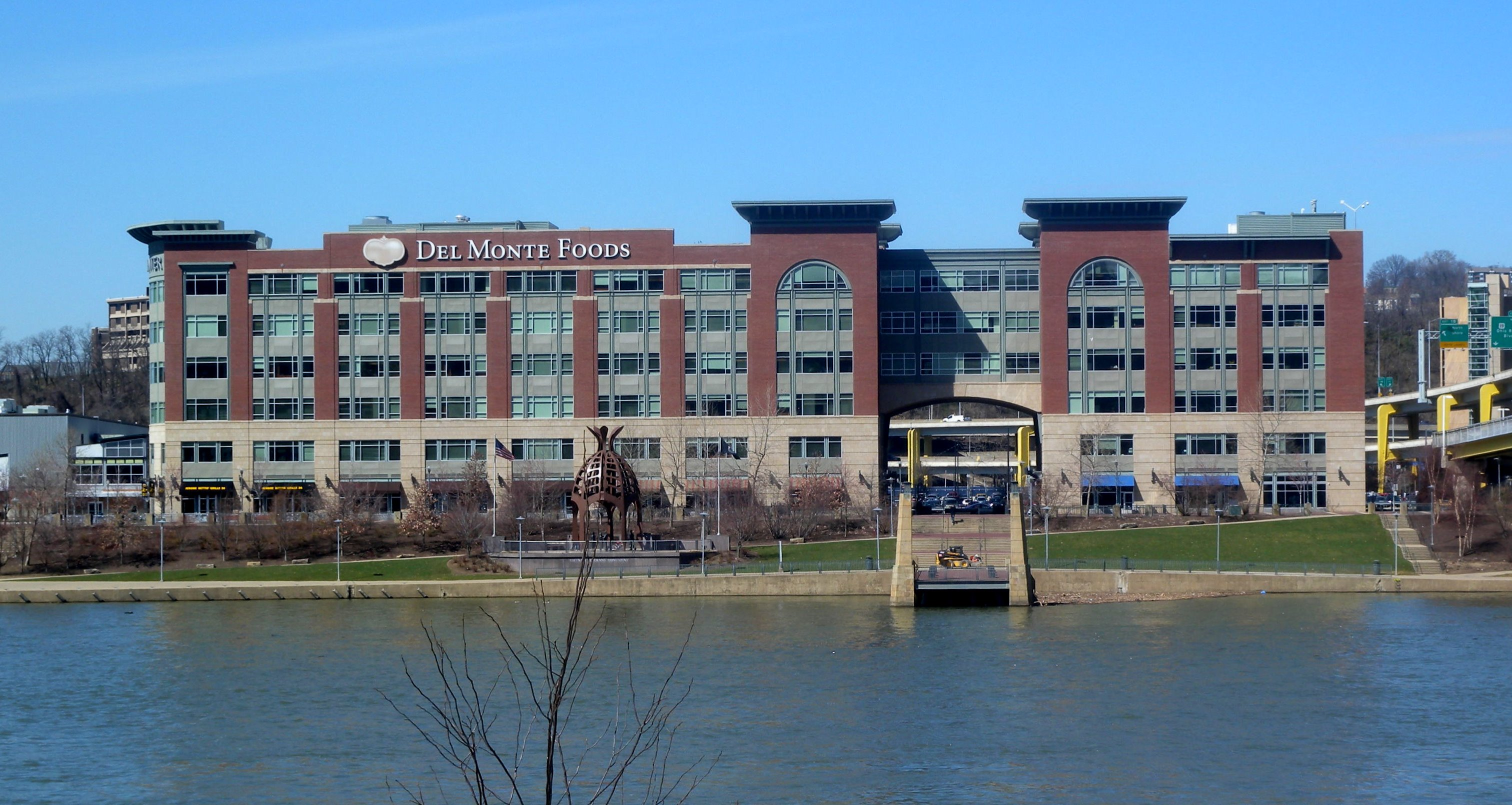 Looking north across Allegheny River at Del Monte on a sunny early afternoon.